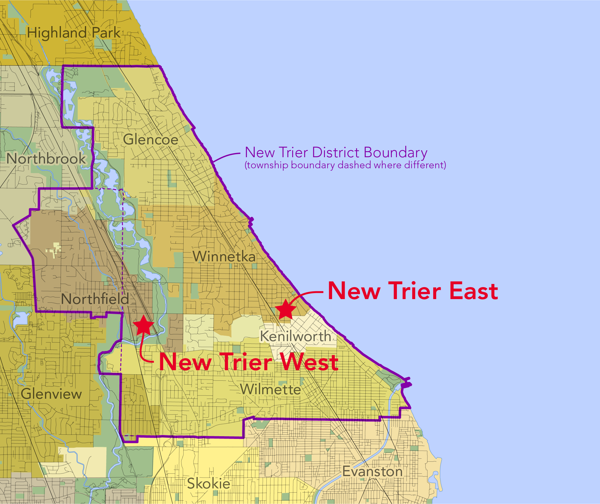 Map showing district boundary and locations of New Trier High School.